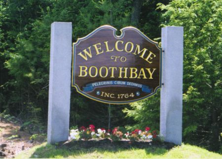 Boothbay town sign. Taken myself.